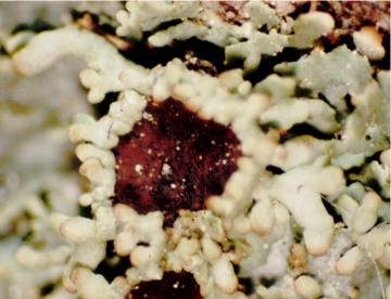 Anaptychia palmulata (lobed apothecium)